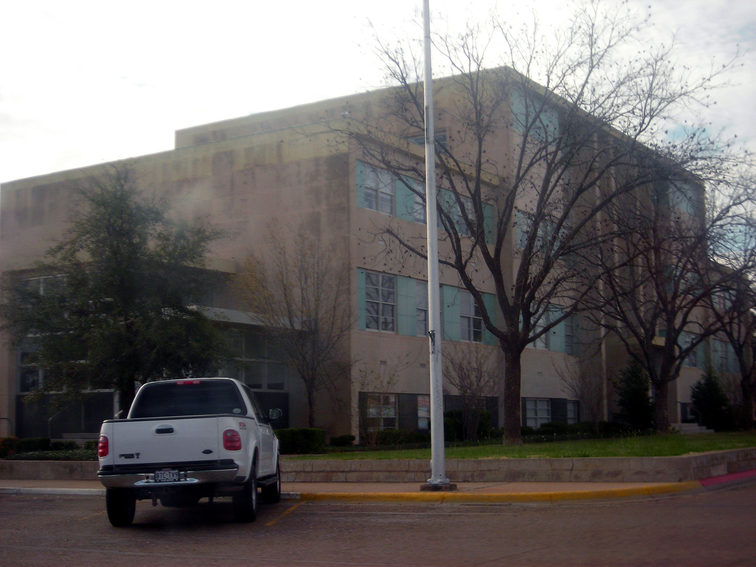 The Gaines County Courthouse in Seminole.